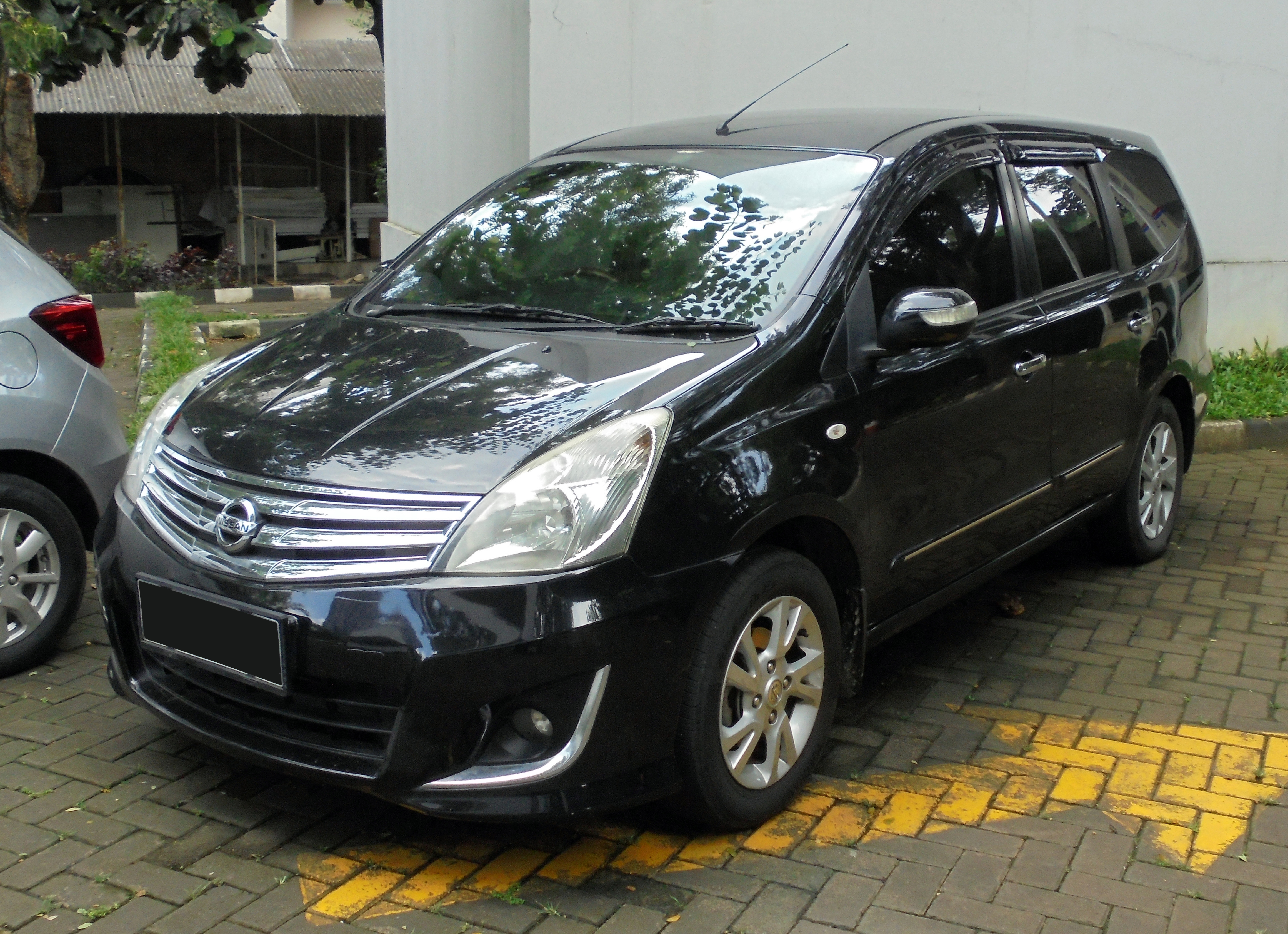 2013 Nissan Grand Livina 1.5 Ultimate (L10)